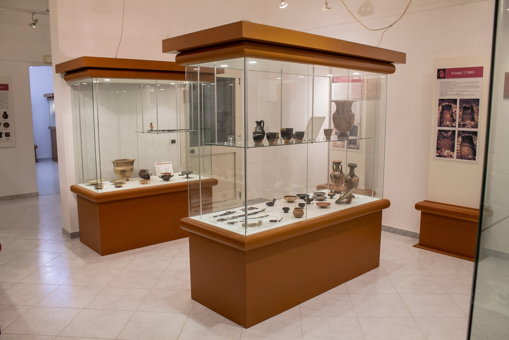 Museo Archeologico di Bitonto